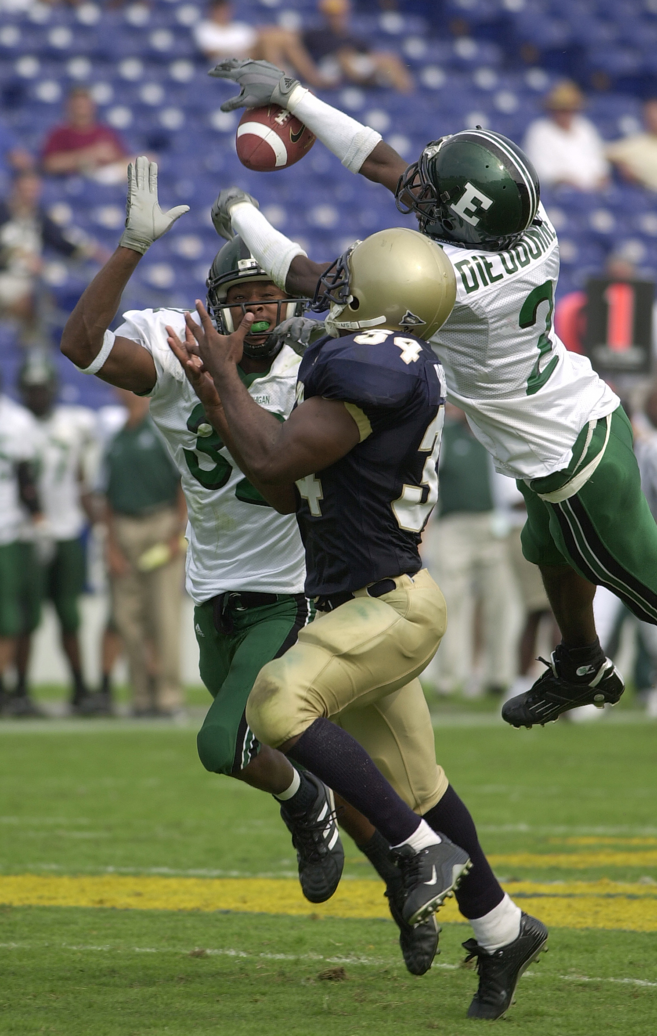 Annapolis, Md. (Sept. 20, 2003) -- Eastern Michigan University (EMU) defenders, Jerry Gaines, left, and Yves Dieudonne, right, block a pass intended for Navy slot back Eric Roberts. Navy scored 28 second half points to put the game out of reach, as they defeated EMU, 39-7, before 27,627 fans in the recently renovated Jack Stephens Field at Navy-Marine Corps Stadium. U.S. Navy photo by Photographer's Mate 2nd Class Damon J. Moritz. (RELEASED)